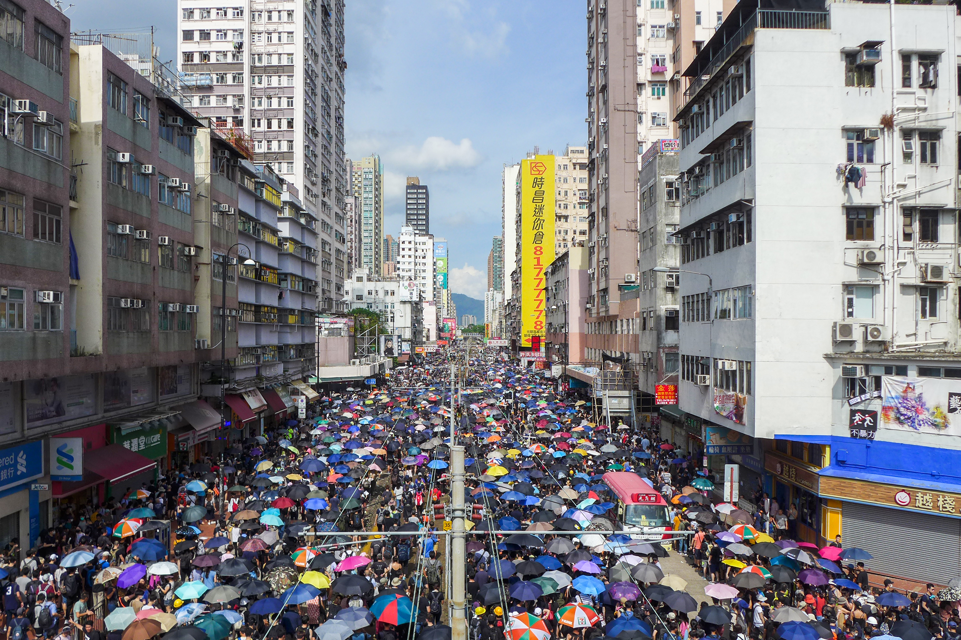 People protest in Castle Peak Road Yuen Long Section